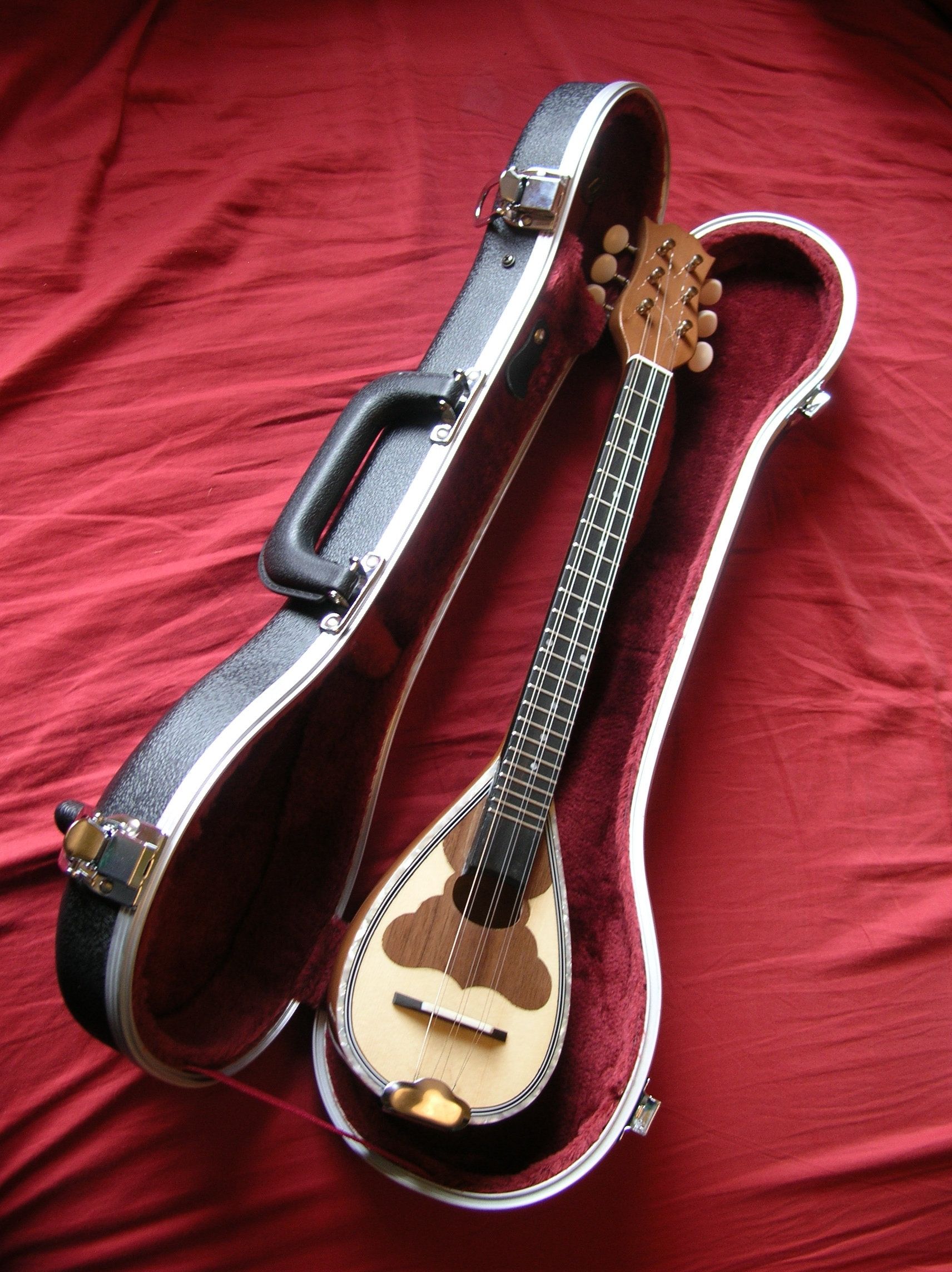 A photo of a Greek baglama.